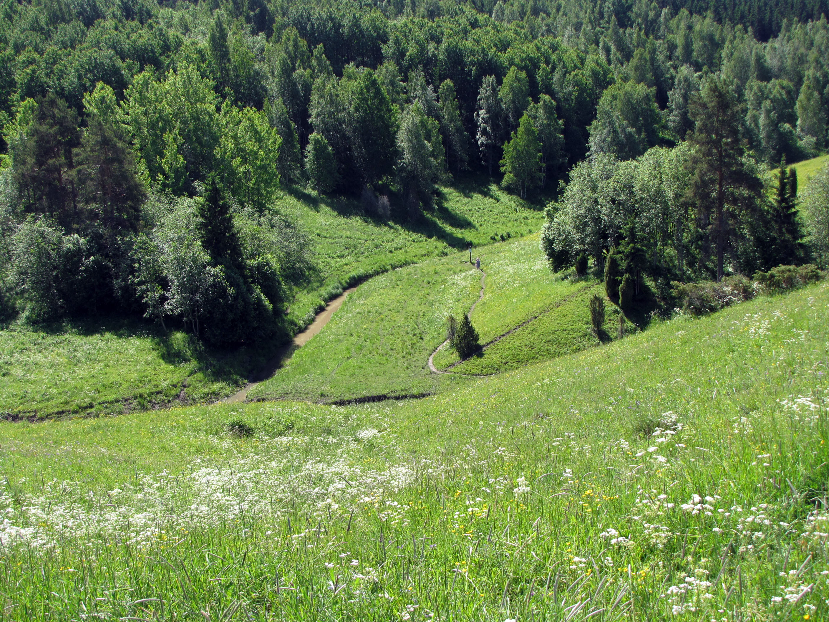 Hantala ravine in Somero, South-Western Finland. Rekijoki River can be seen at the bottom of the ravine.